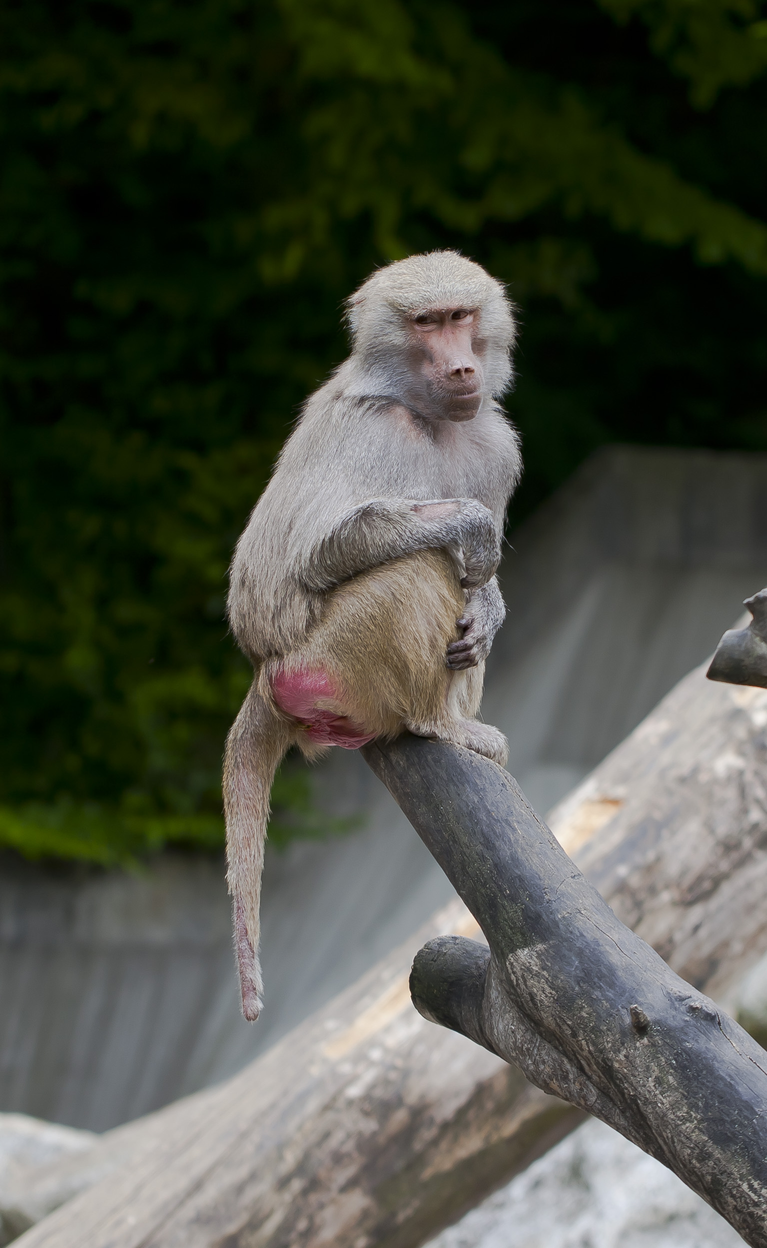 Hamadryas baboon (Papio hamadryas), Tierpark Hellabrunn, Munich, Germany